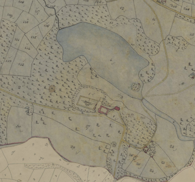 Part of Crewe Hall park, near Crewe, Cheshire, from 1840 tithe map